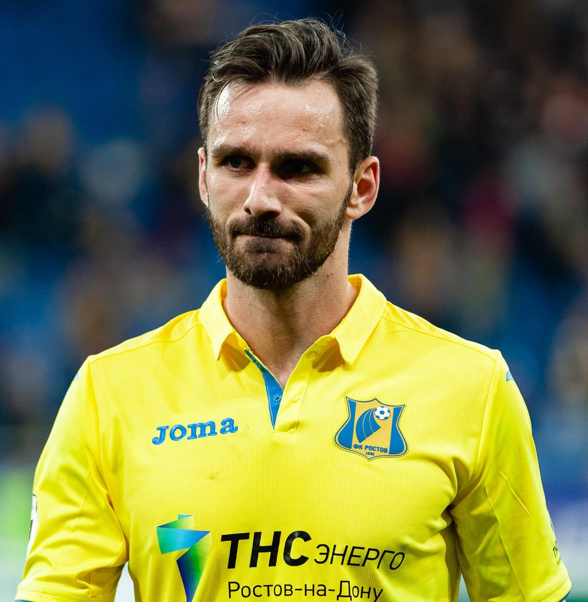 Maciej Wilusz with FC Rostov in a game against FC Orenburg.